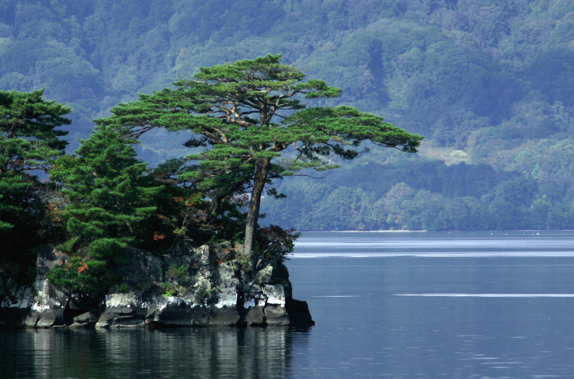 Pinus densiflora, Lake Towada, Kamikita-gun, Aomori Prefecture, Japan, 40°27'56"N 140°54'49"E, 405 m altitude